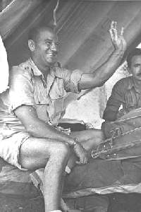 This is a PUBLIC photo of Col Mickey Marcus